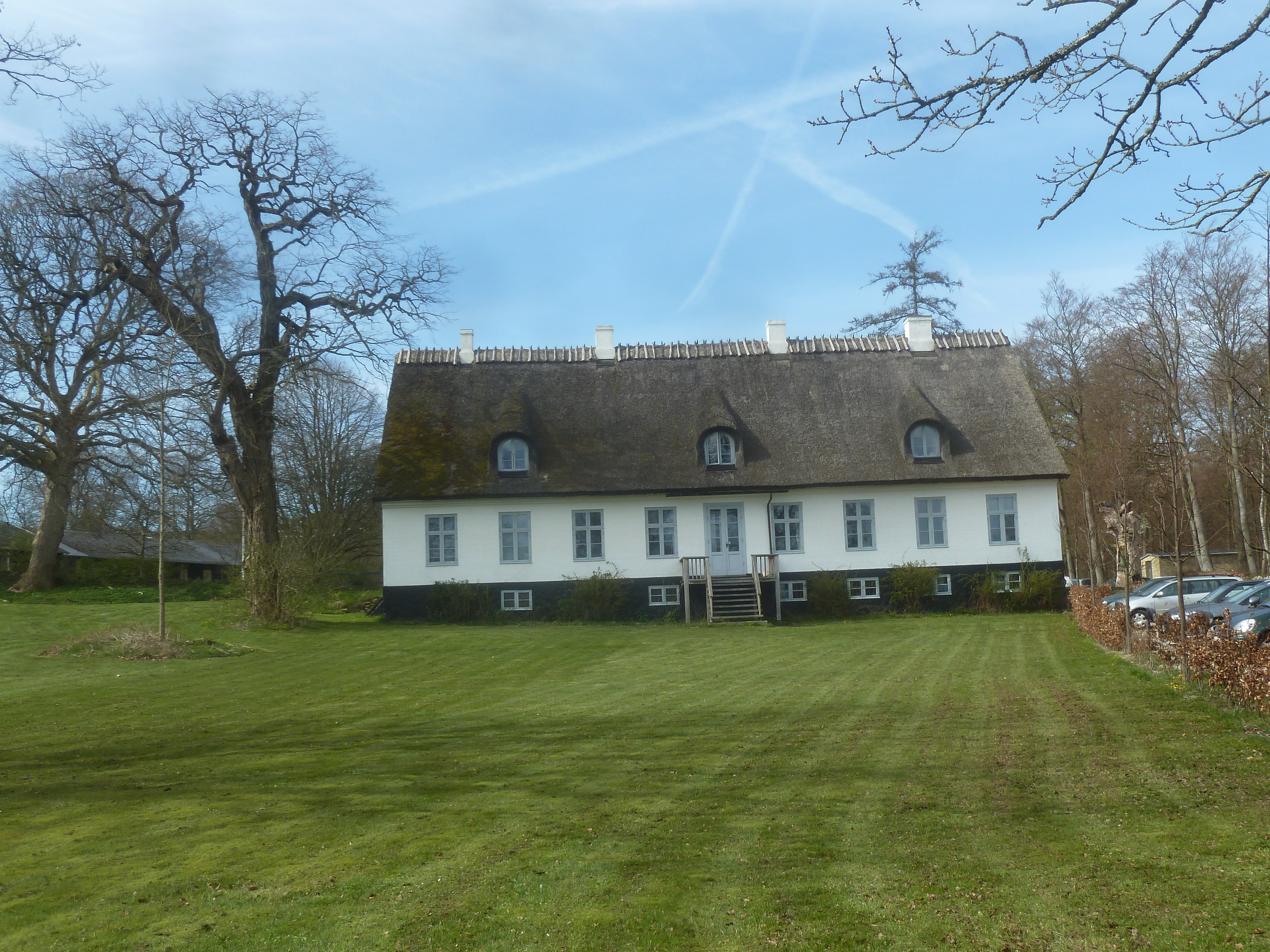 Skovridergården in Nødeno,, Hillerød Municipality, Denmark